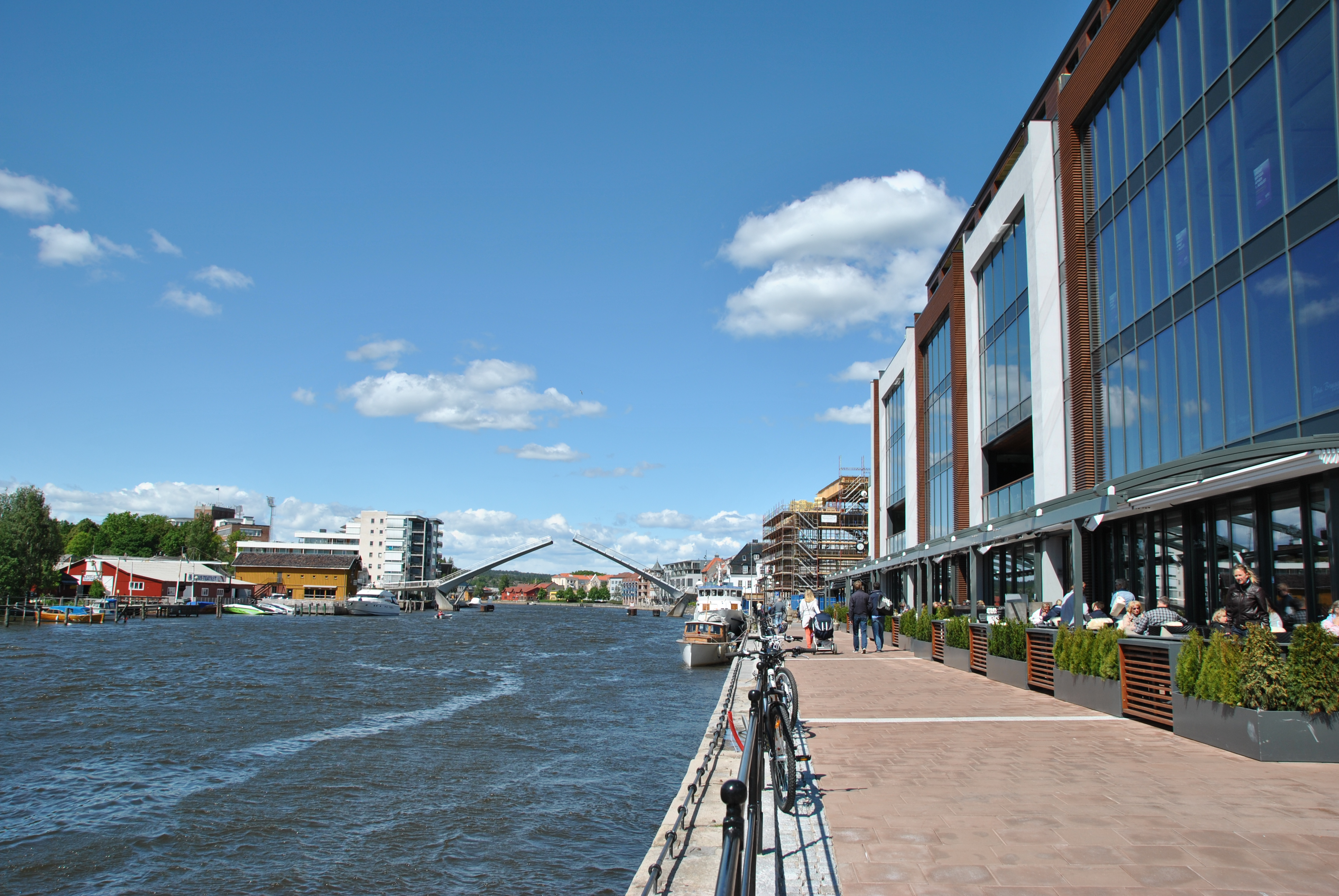 Riverside promenade in Fredrikstad on a cold summer day